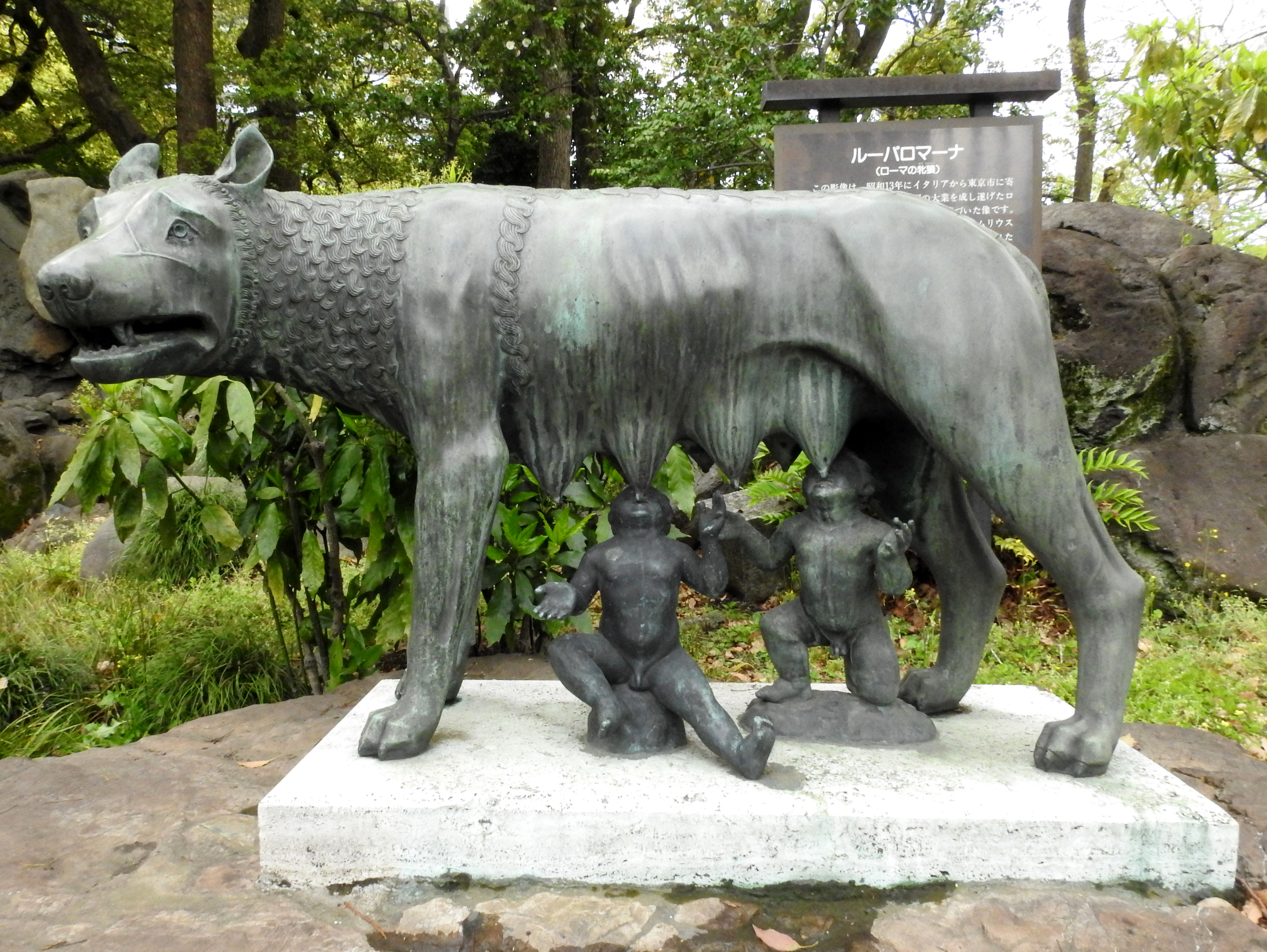 A replica of the capitoline she-wolf statue suckling Romulus and Remus in Hibiya Park, Chiyoda Ward, Tokyo, Japan. It was donated to Japan by the Italian dictator Benito Mussolini in 1938. Mussolini gave similar statues to various places around the world as a symbol of Rome.